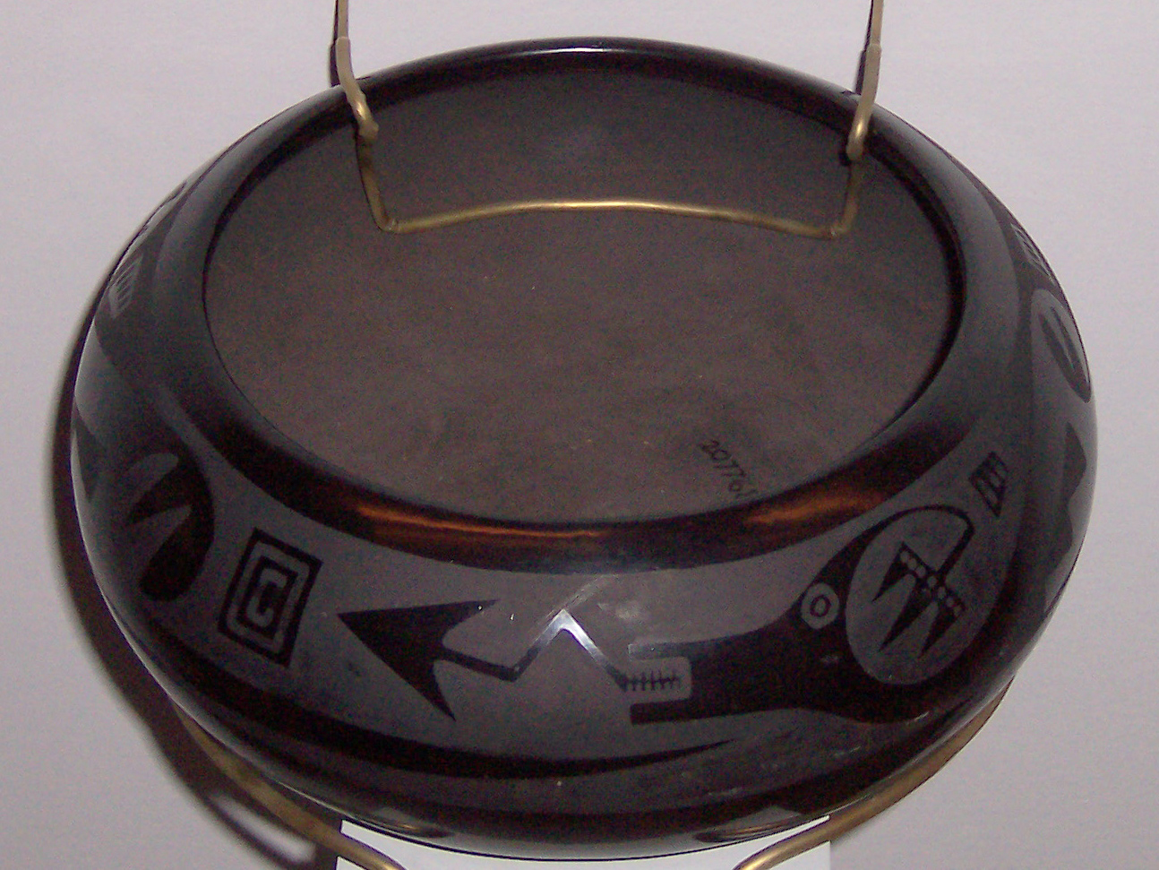 San Ildefonso Pueblo, Black-on-Black Pottery Bowl. Exhibit of the Field Museum.